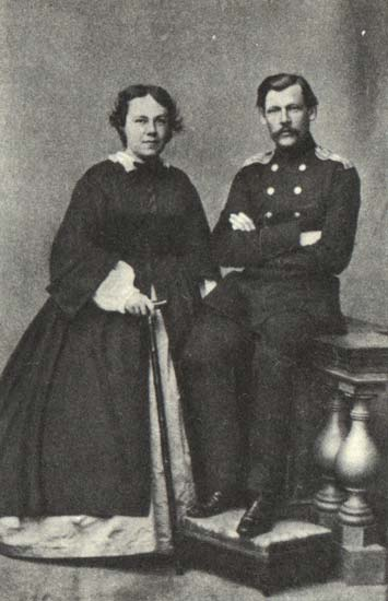 Nikolay Shelgunov (1824-1891) with his wife Lyudmila (1832 - 1901)